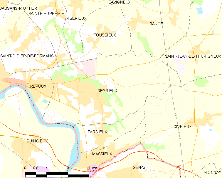 Map of French commune: Reyrieux Map commune FR insee code 01322.png